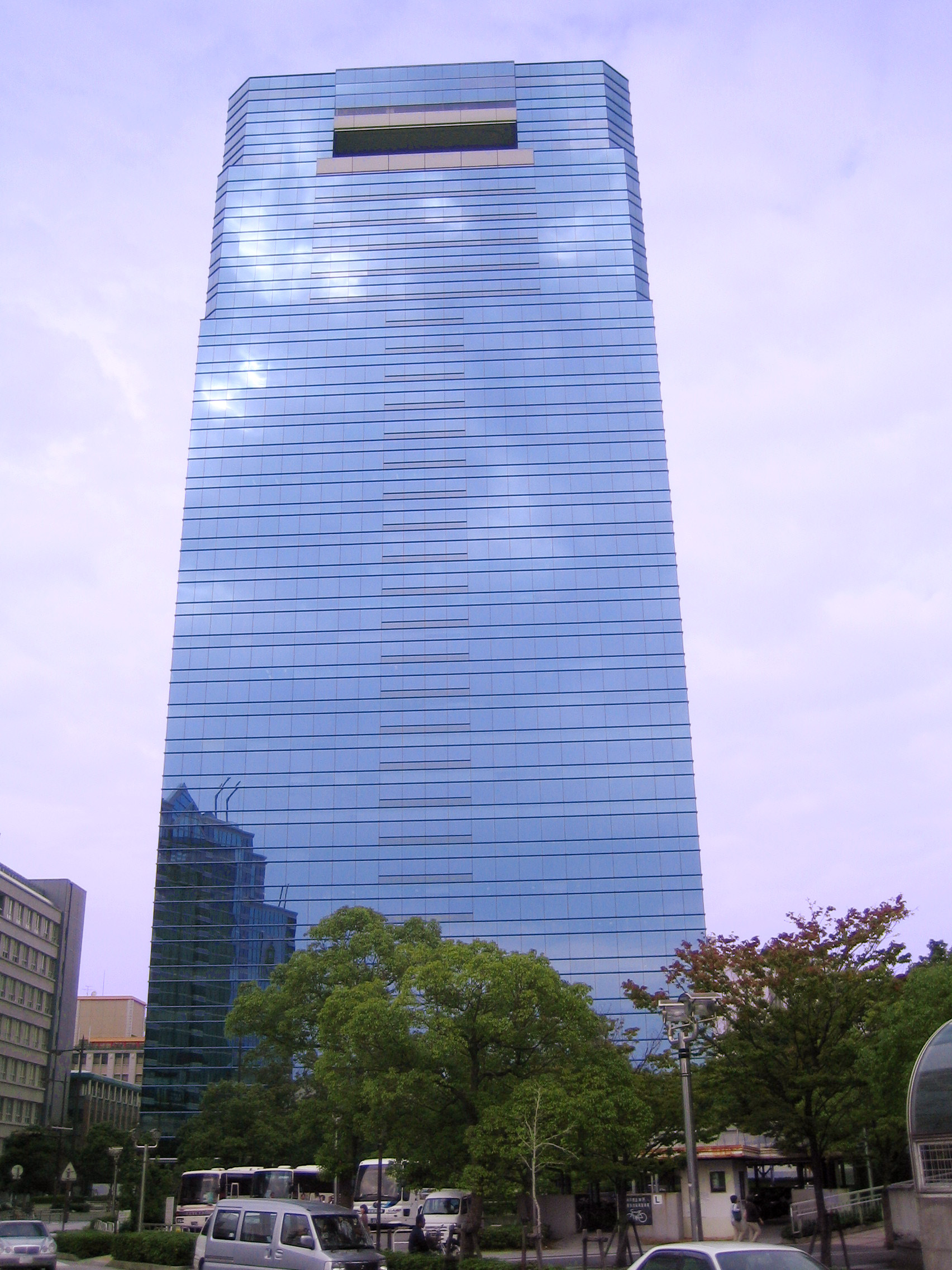 Kobe Crystal Tower (神戸クリスタルタワー), at Chuo, Kobe, Hyogo, Japan